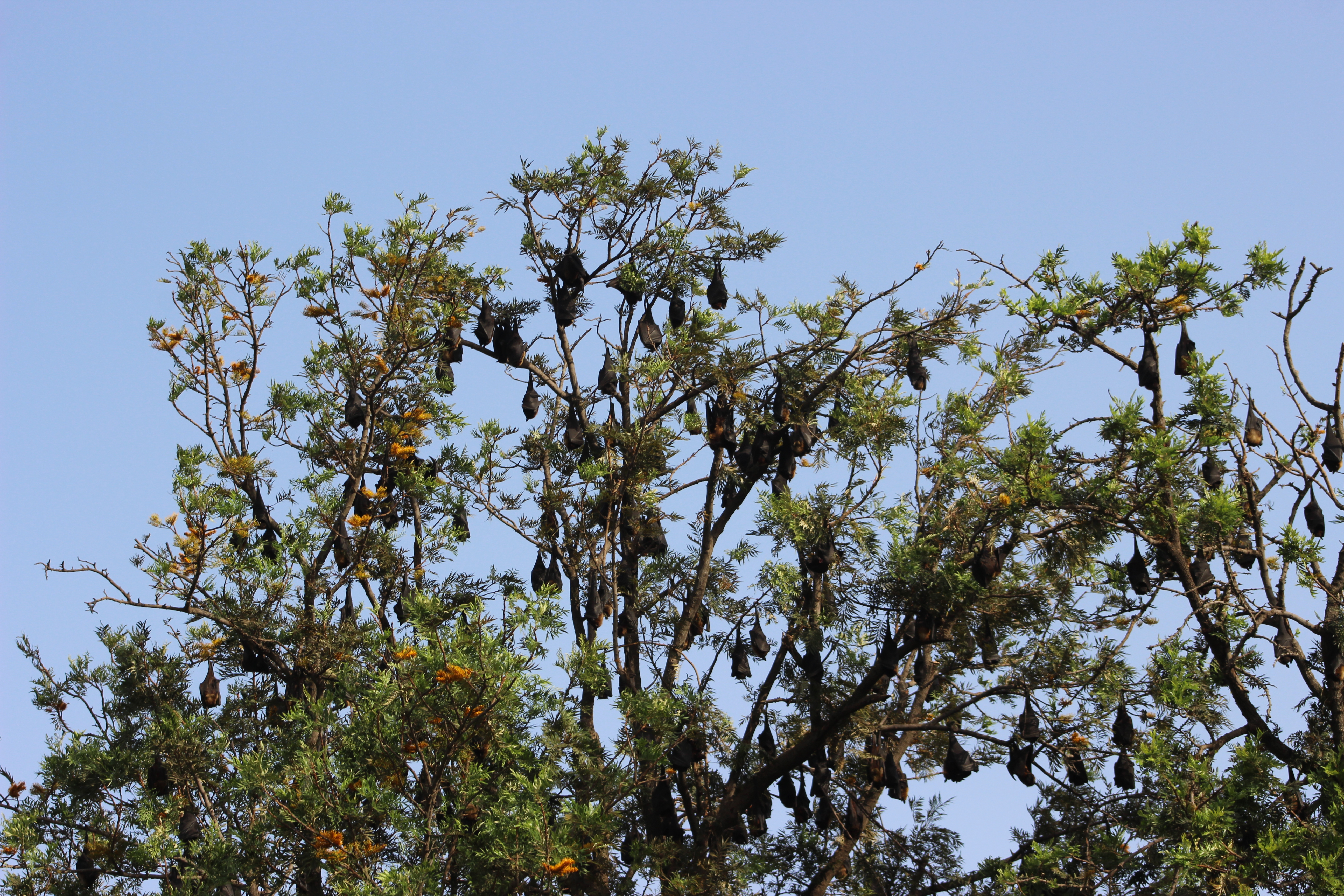 Bats Hanging on Grevillea robusta Tree